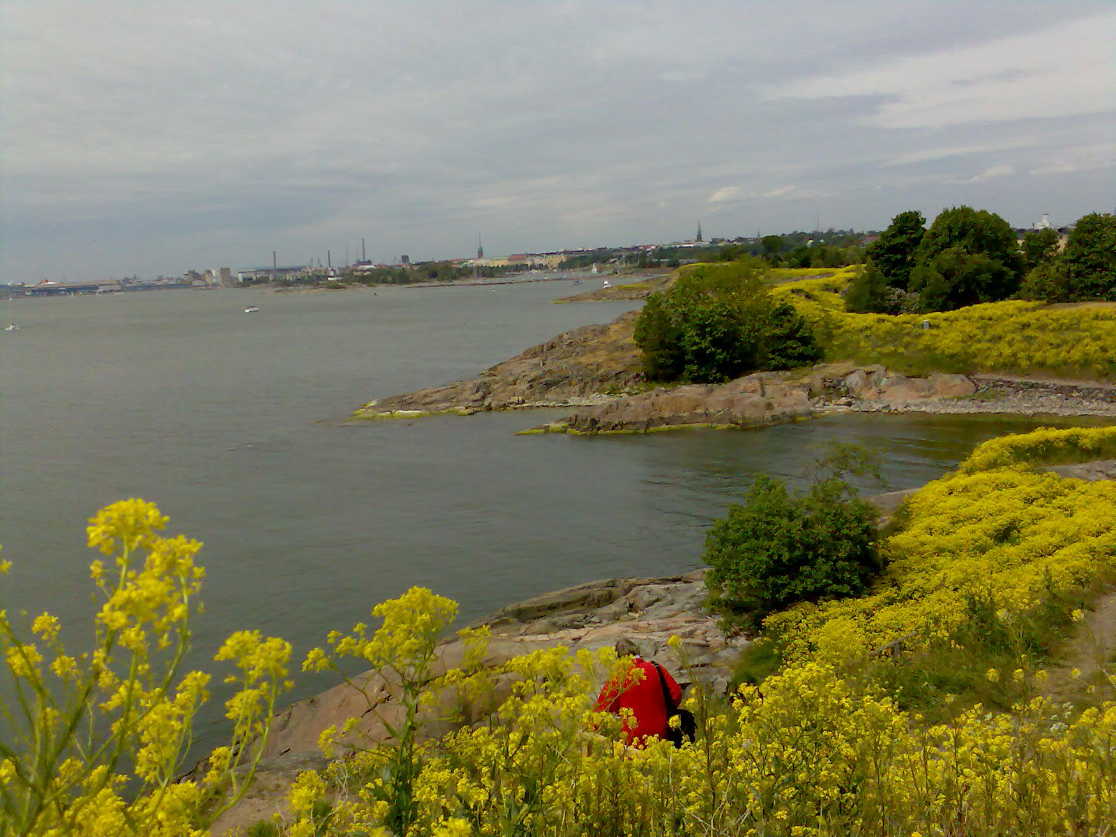 Bunias orientalis, Warty Cabbage - Suomenlinna fortress, Helsinki, Finland